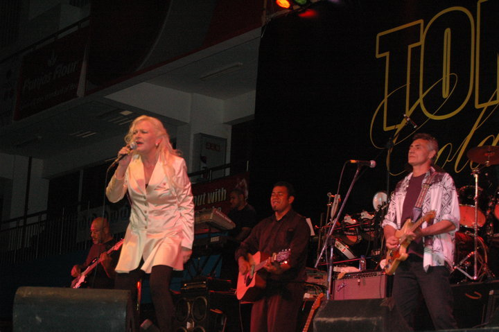 Colored photograph of Toni Willé in concert with Daniel Rae Costello and Fijian musicians